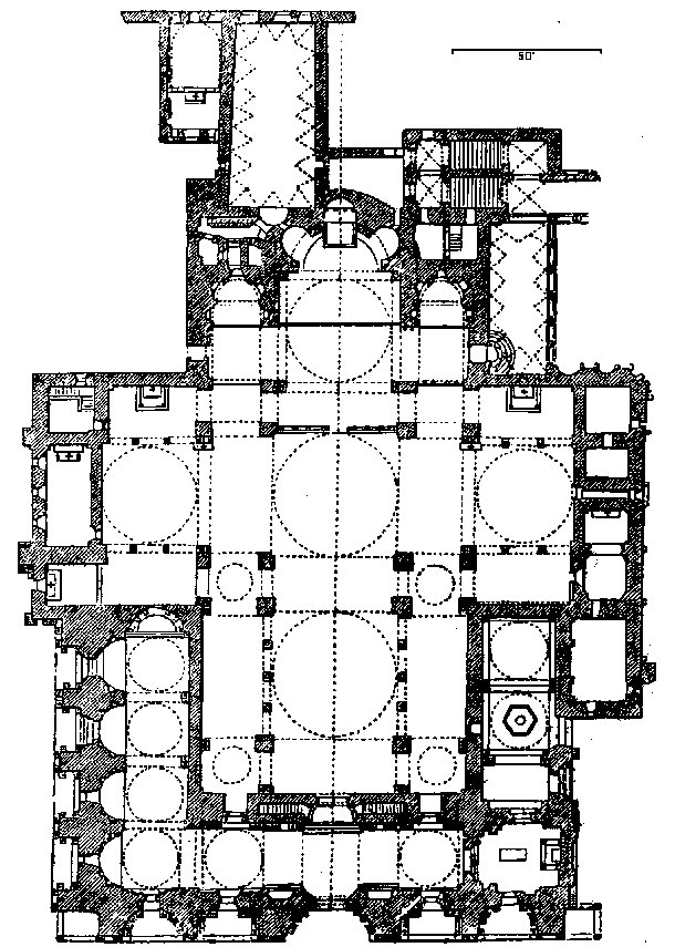 Plan of St. Mark's, Venice